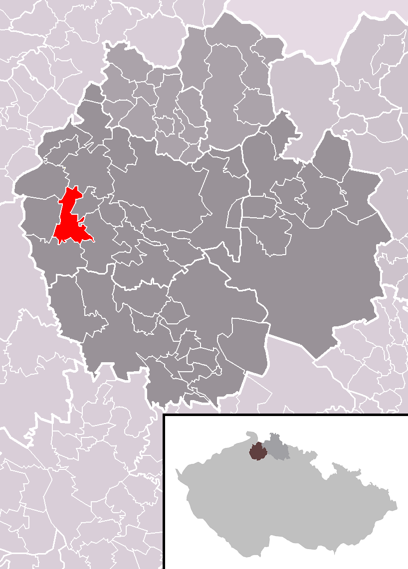 Location of Stvolínky municipality within Česká Lípa District and administrative area of Česká Lípa as a Municipality with Extended Competence.